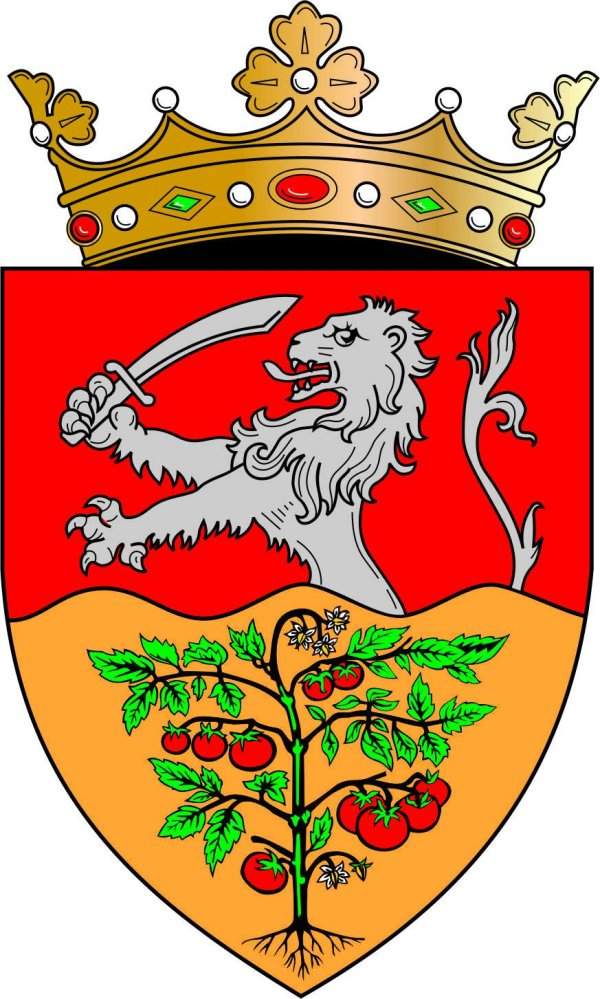 CoA of Anenii Noi District